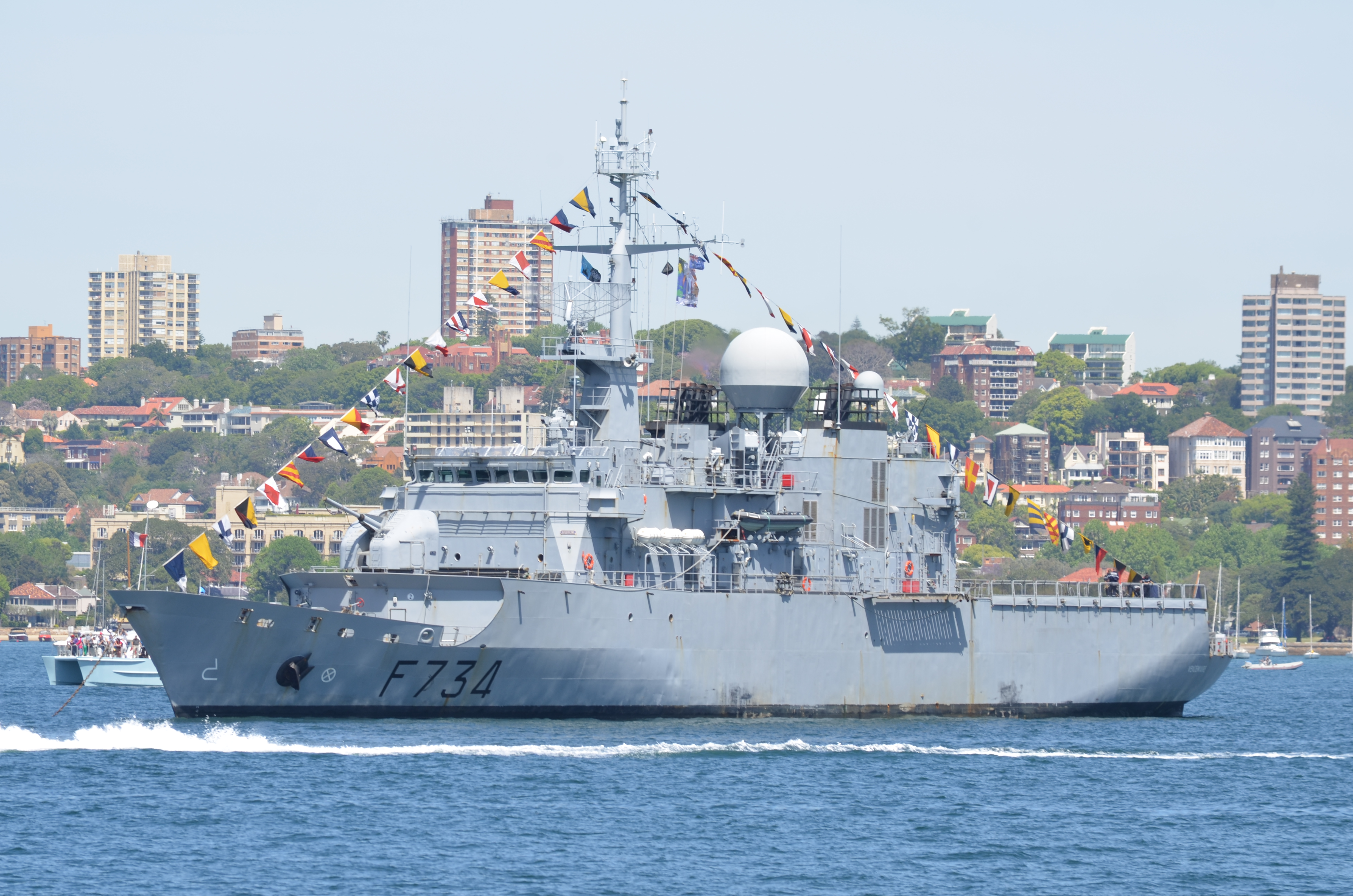 Photographs taken during day 3 of the Royal Australian Navy International Fleet Review 2013. French frigate Vendemiaire, moored in Sydney Harbour.